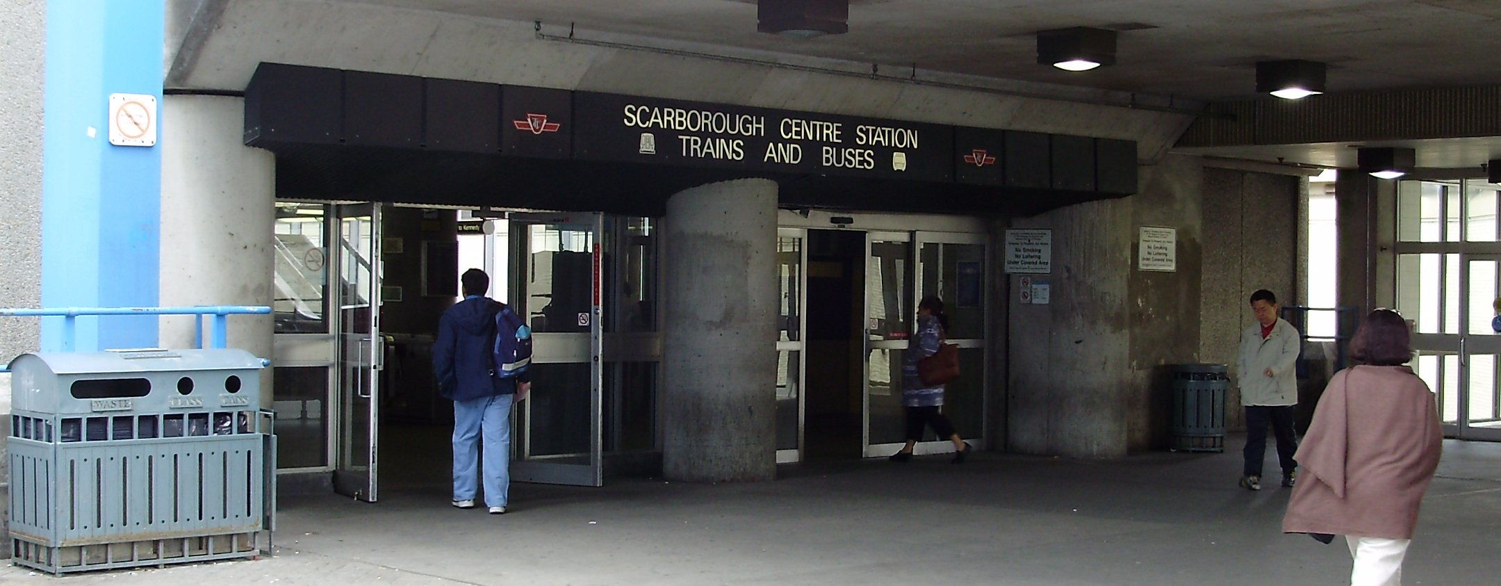 The entrance to the Toronto Transit Commission's Scarborough Centre station in Scarborough, Canada, just south of the Scarborough Town Centre shopping mall.